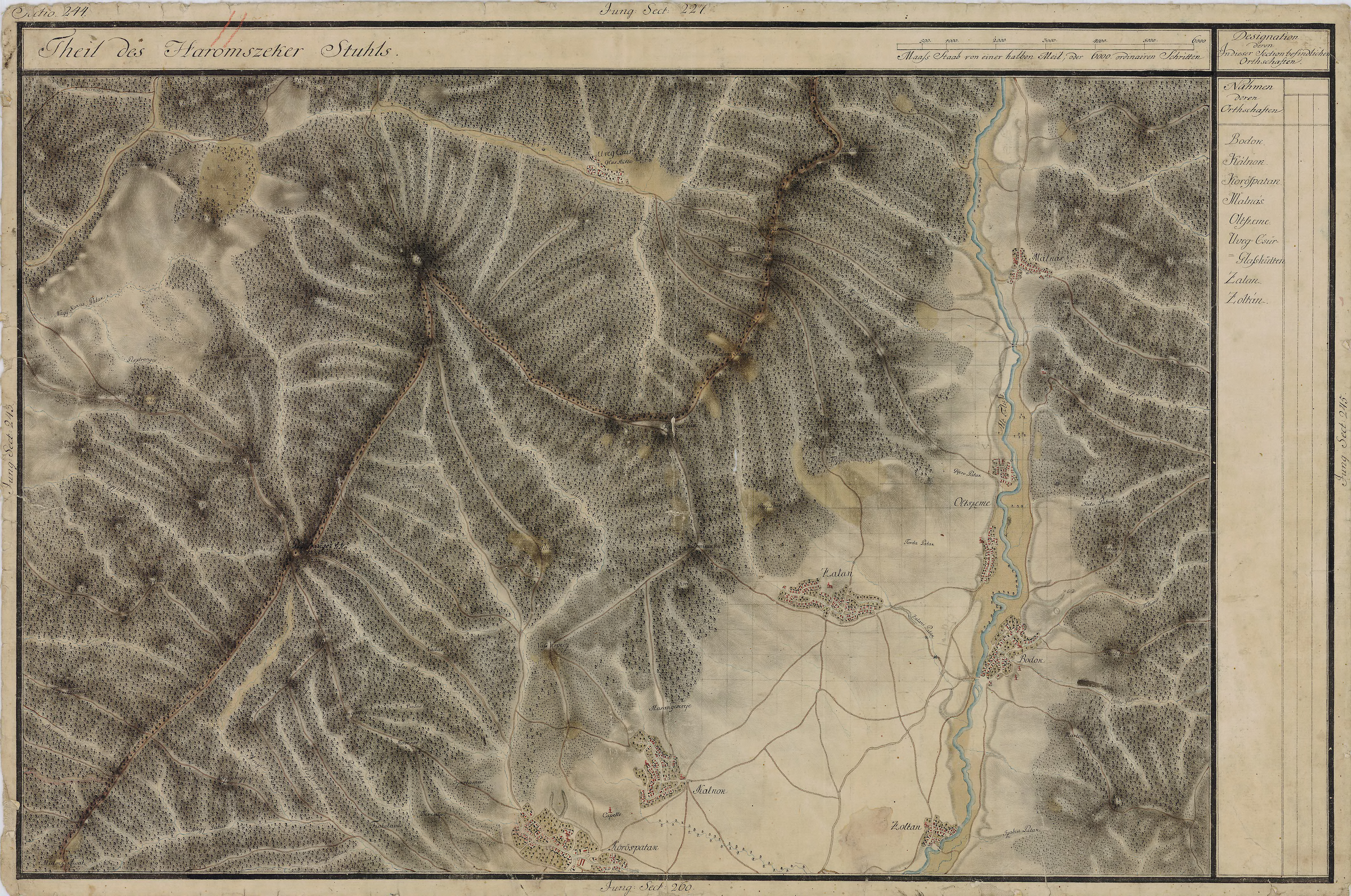 Grand Duchy of Transylvania, 1769-1773. Josephinische Landaufnahme pg.244